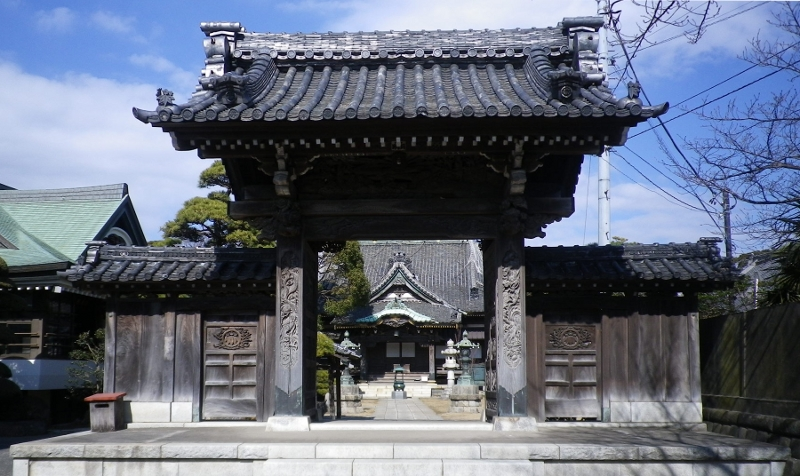 Gate of the Myogyo-ji temple in Ichikawa City, Chiba Prefecture, Japan